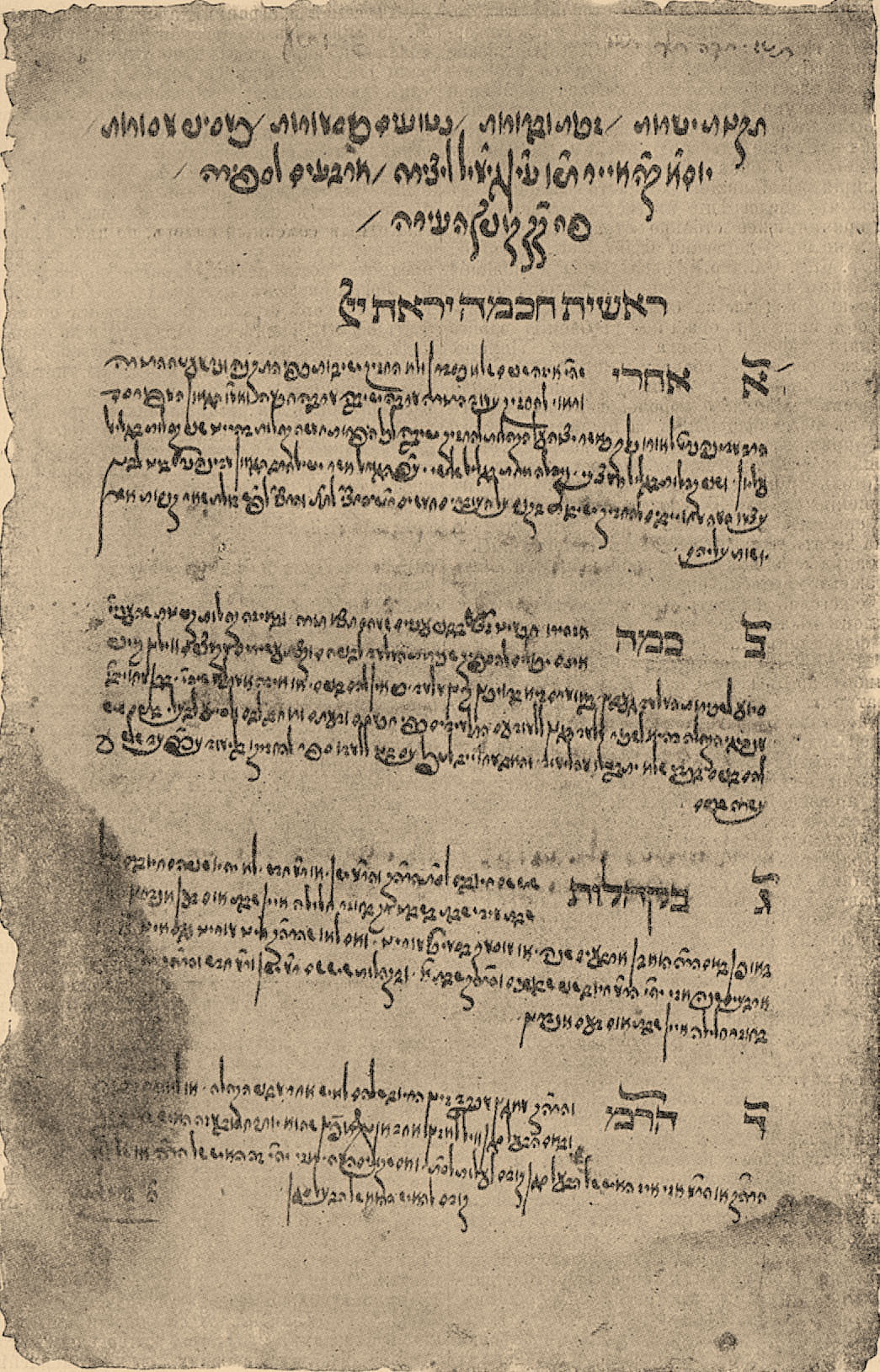 Illustration from Brockhaus and Efron Jewish Encyclopedia (1906—1913)